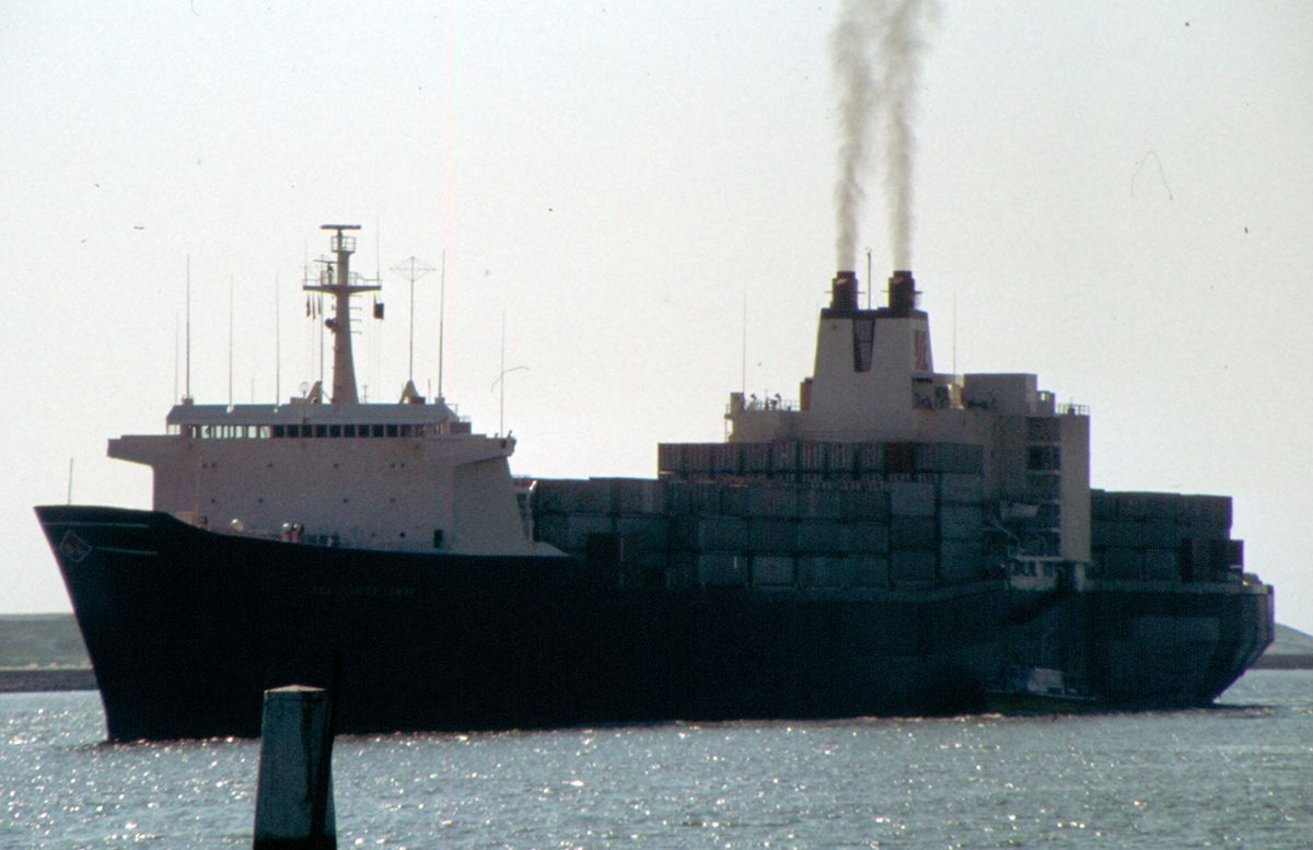 The container-ship Sea-Land Market at Hoek van Holland in 1981.